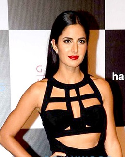 Katrina Kaif at 'Van Heusen GQ Fashion Nights'